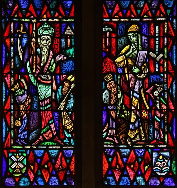 The Dutch Church, Austin Friars, London EC2 - Window Window designed by Max Nauta